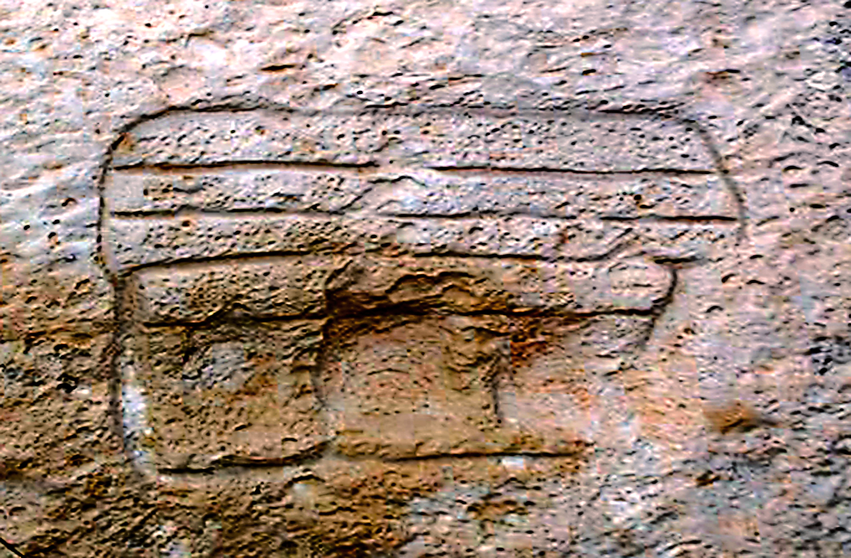 Graffito of the temple interior, Temple of Mnajdra.